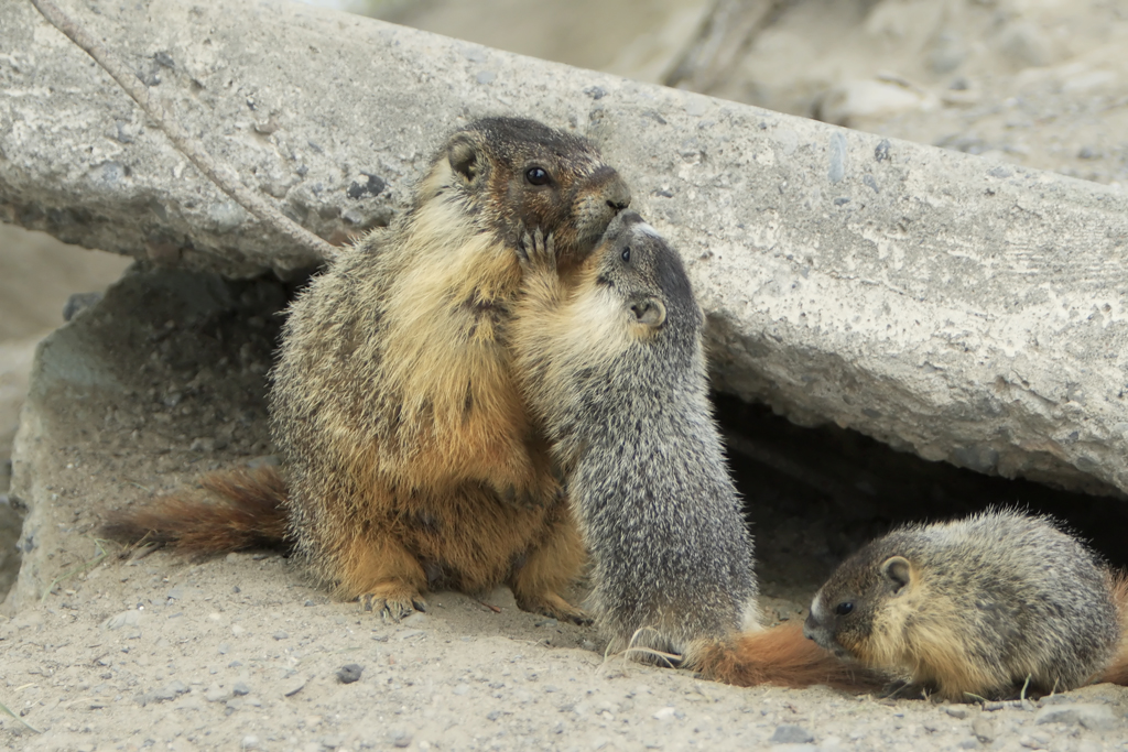 Just outside their den, this mother Yellow-bellied marmot allowed her young pup a short moment of affection. Shortly before this she had nursed this pup for a short while.